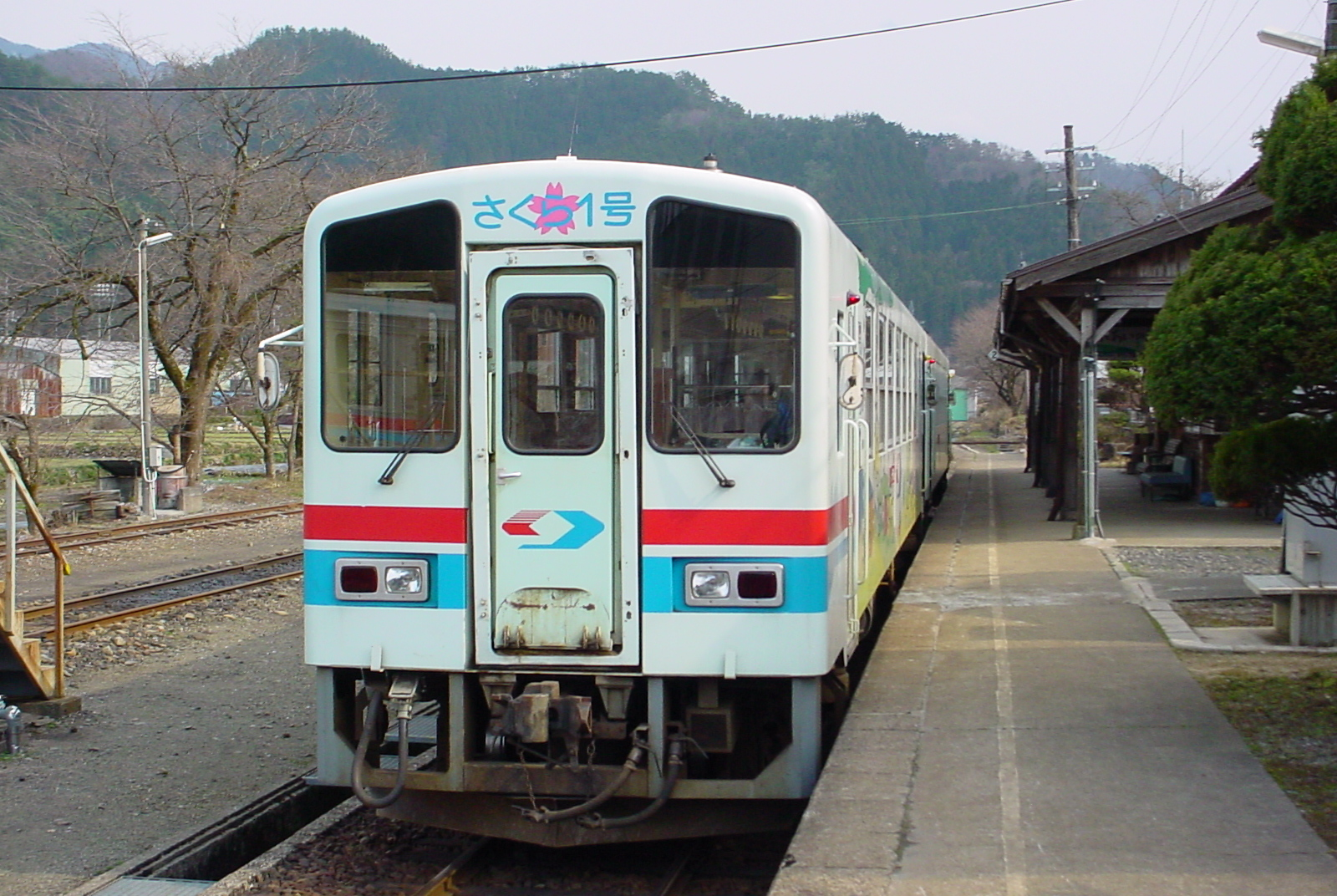 Wakasa Railway "Sakura 1" train. Photograph taken by スイッチバック. Originally uploaded to Japanese Wikipedia by the photographer.